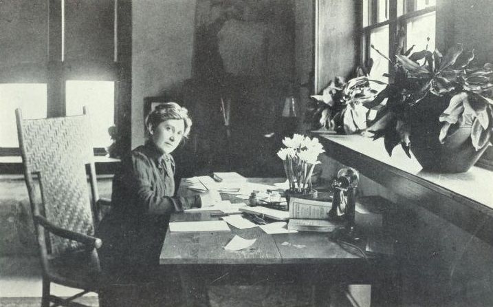 Portrait of Corra May Harris